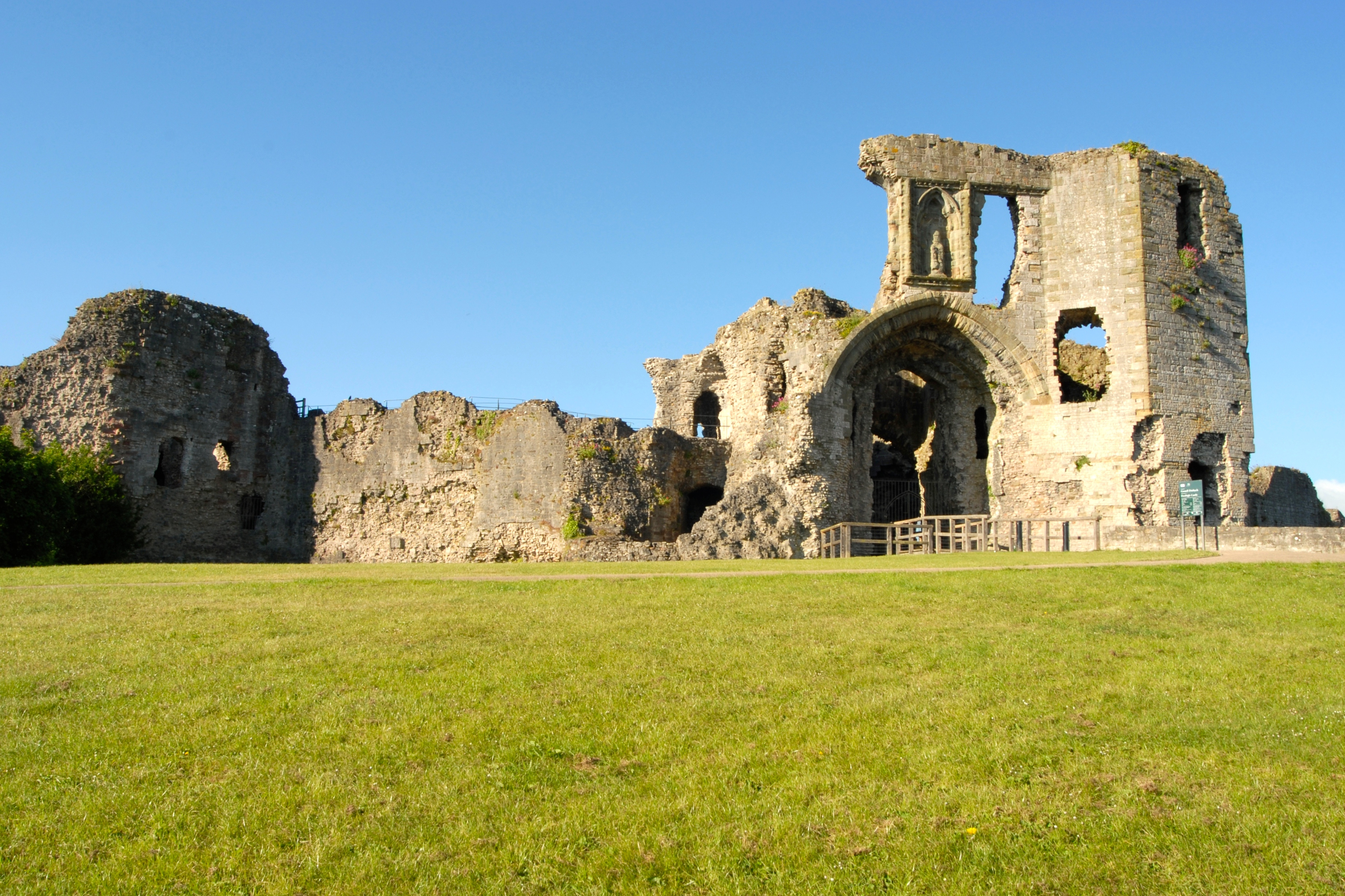 Denbigh Castle